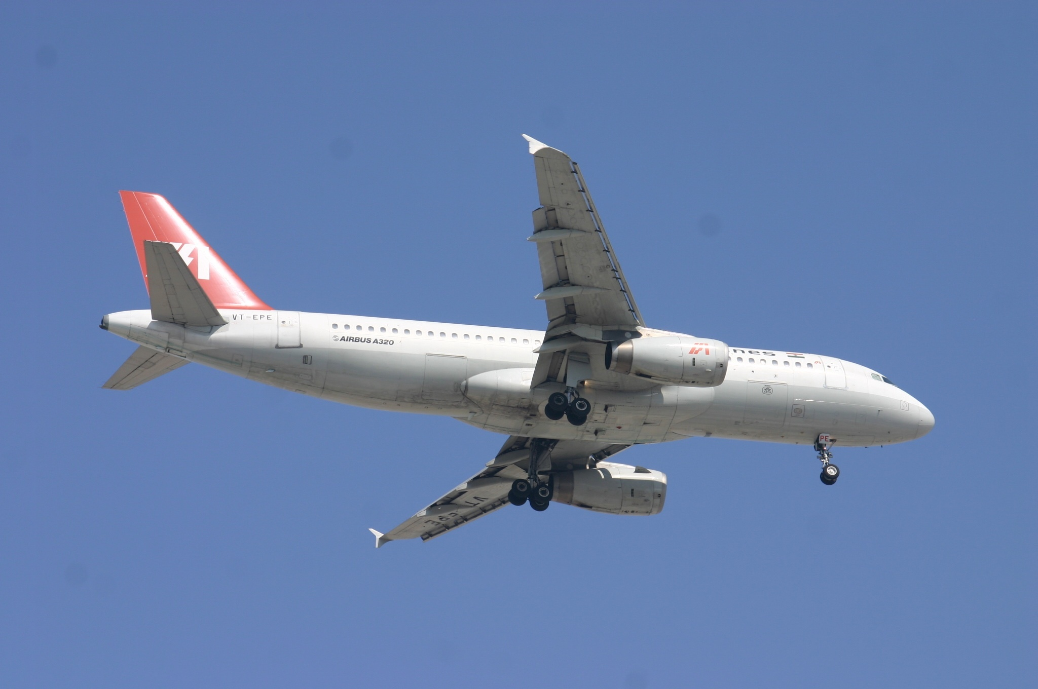 At Dubai International DXB